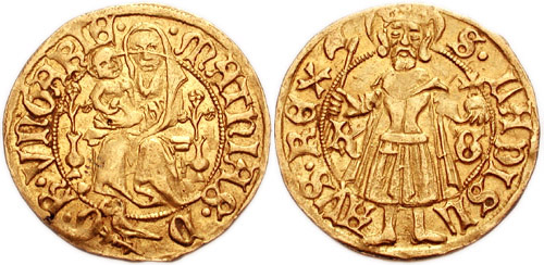 Hungary. Matthias Corvinus. 1458-1490. AV Gulden or Florint (21mm, 3.54 gm, 5h). Kremnitz mint, Johannes Constorffer, mintmaster. Struck 1472. •MAThIAS• D G•R•VNGARIE•, Madonna and Child flanked by vases of flowers; raven (corvus) below S• LADISL-AVS•REX, St. Ladislaus I standing facing, holding axe and clobus cruciger; K G (over A [Augustin Langsfelder]). Réthy-Probszt 209/C-2; Pohl K7-2; Huszár 679. Note: Pohl puts the date for mintmaster Constorffer as 1472, and Langsfelder 1472-1478. However, in this case Constorffer has re-used a Langsfelder die, so they must at least be concurrent.